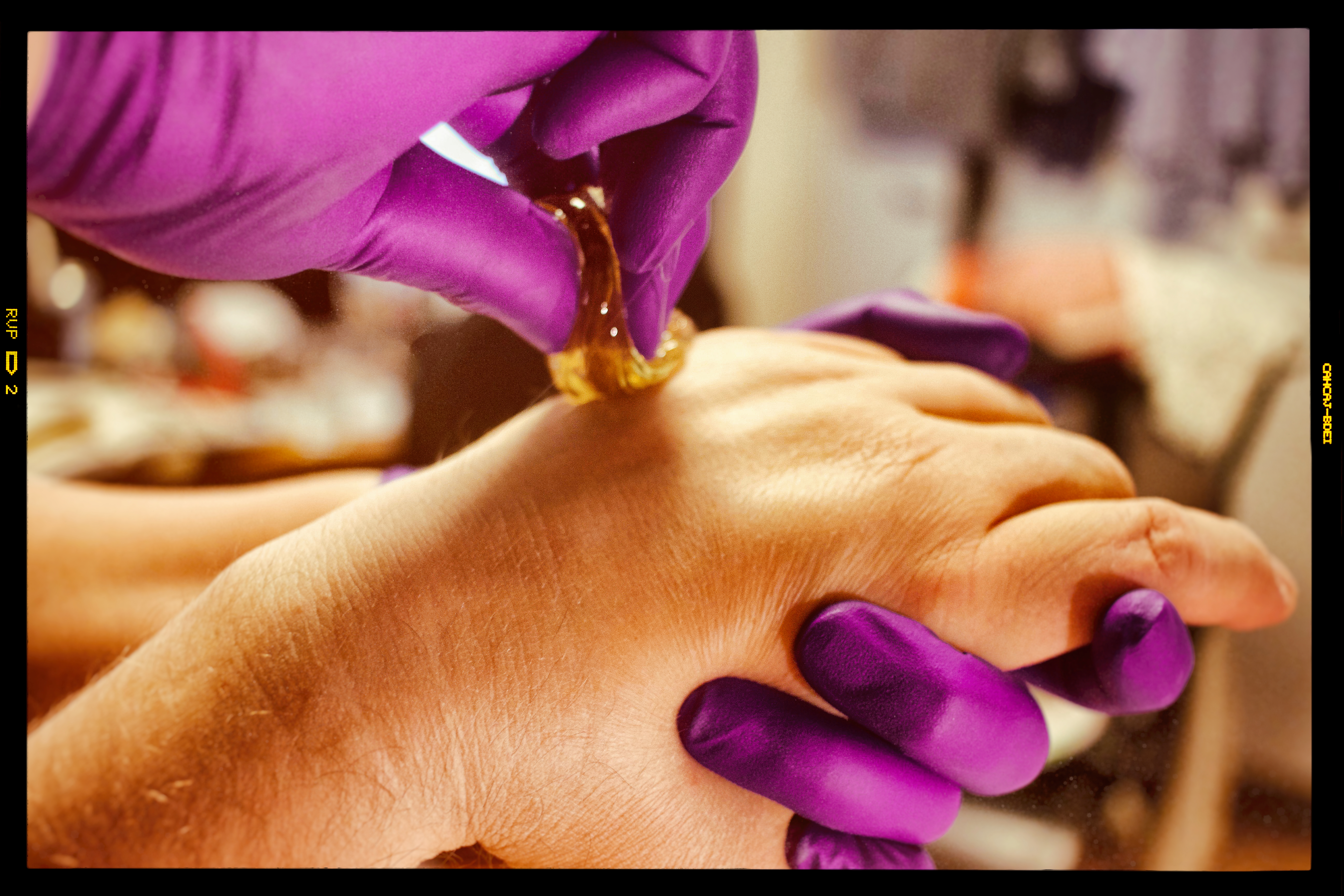 Sugaring (hair removal) from hand.